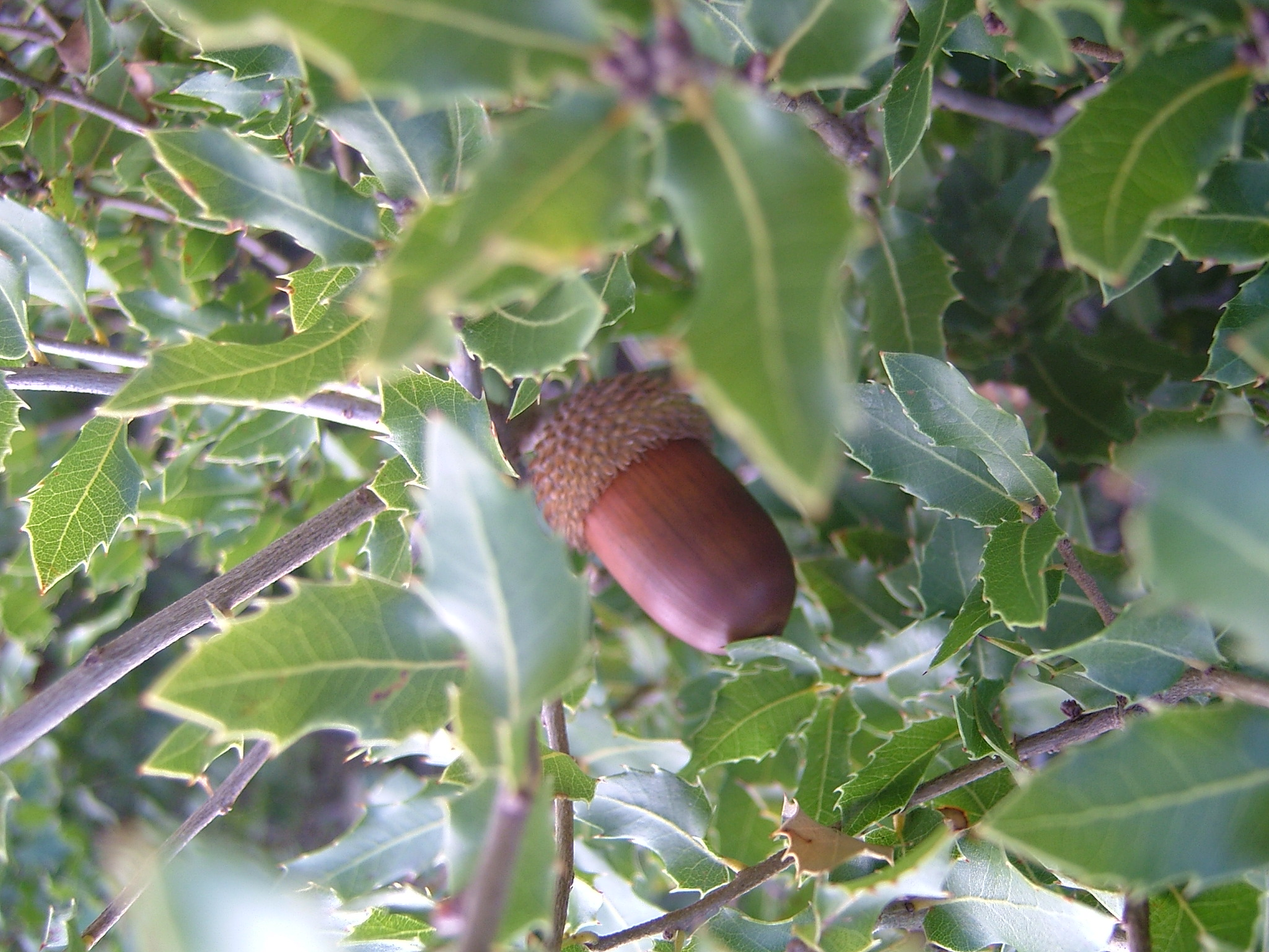 Quercus coccifera